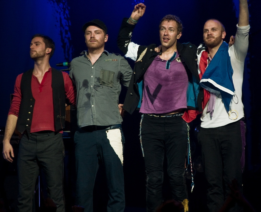 Coldplay taking a bow after performing in support of their 2008 tour. From left to right: Guy Berryman, Jonny Buckland, Chris Martin, and Will Champion